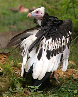 White-headed Vulture (Trigonoceps occipitalis) in Zoo Berlin